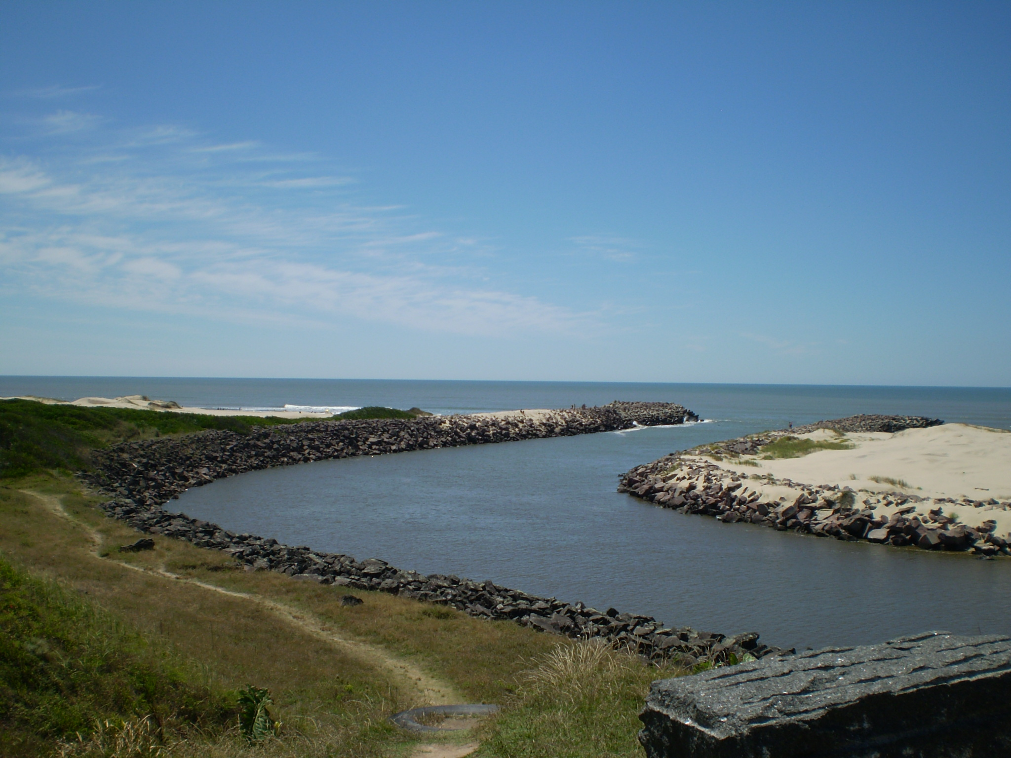 Arroio Chuí arriving ine the Atlantic Ocean, Barra do Chuí, district of Santa Vitória do Palmar, Rio Grande do Sul, Brazil.